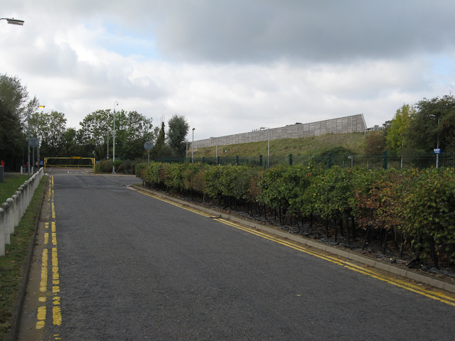 Road round the Regional College Leading to the travellers' settlement and the byway the other site of the A14. The A14 is the other side of the sound baffles.